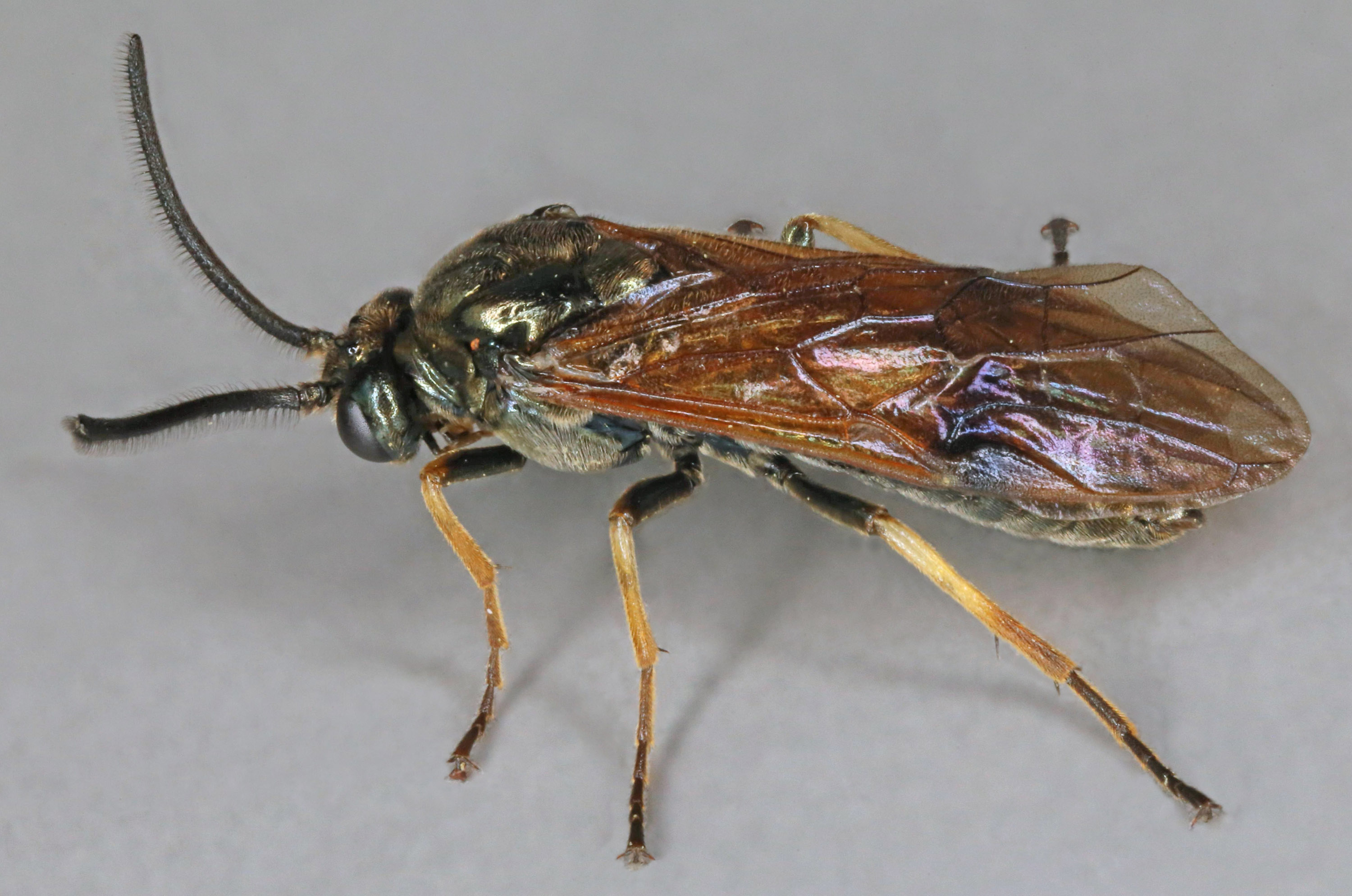 Arge ustulata, Fenn's Moss, North Wales, June 2016 (2)